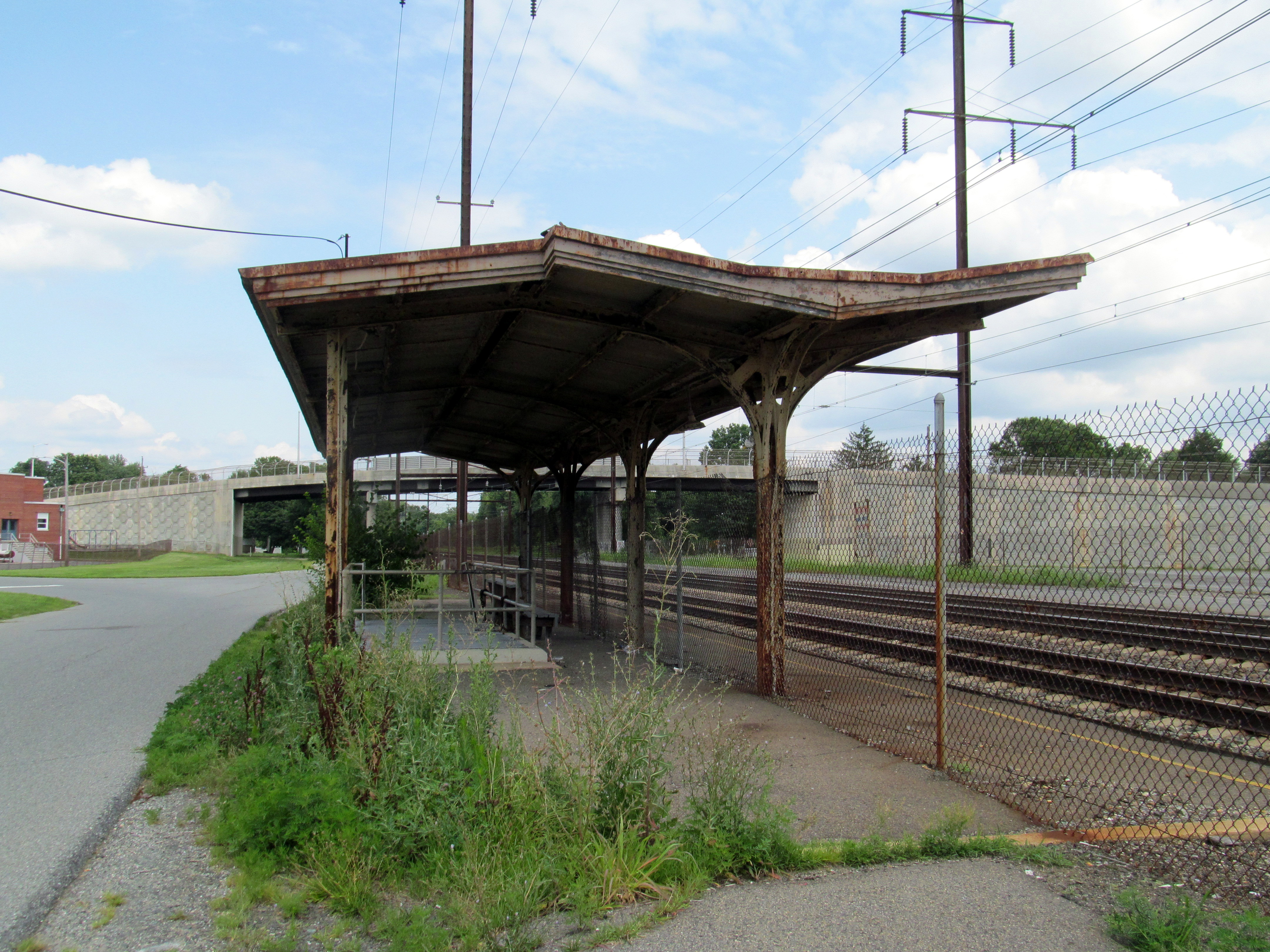 Southbound shelter at the former Elkton station, facing north. The passenger subway stairs are visible in the center.